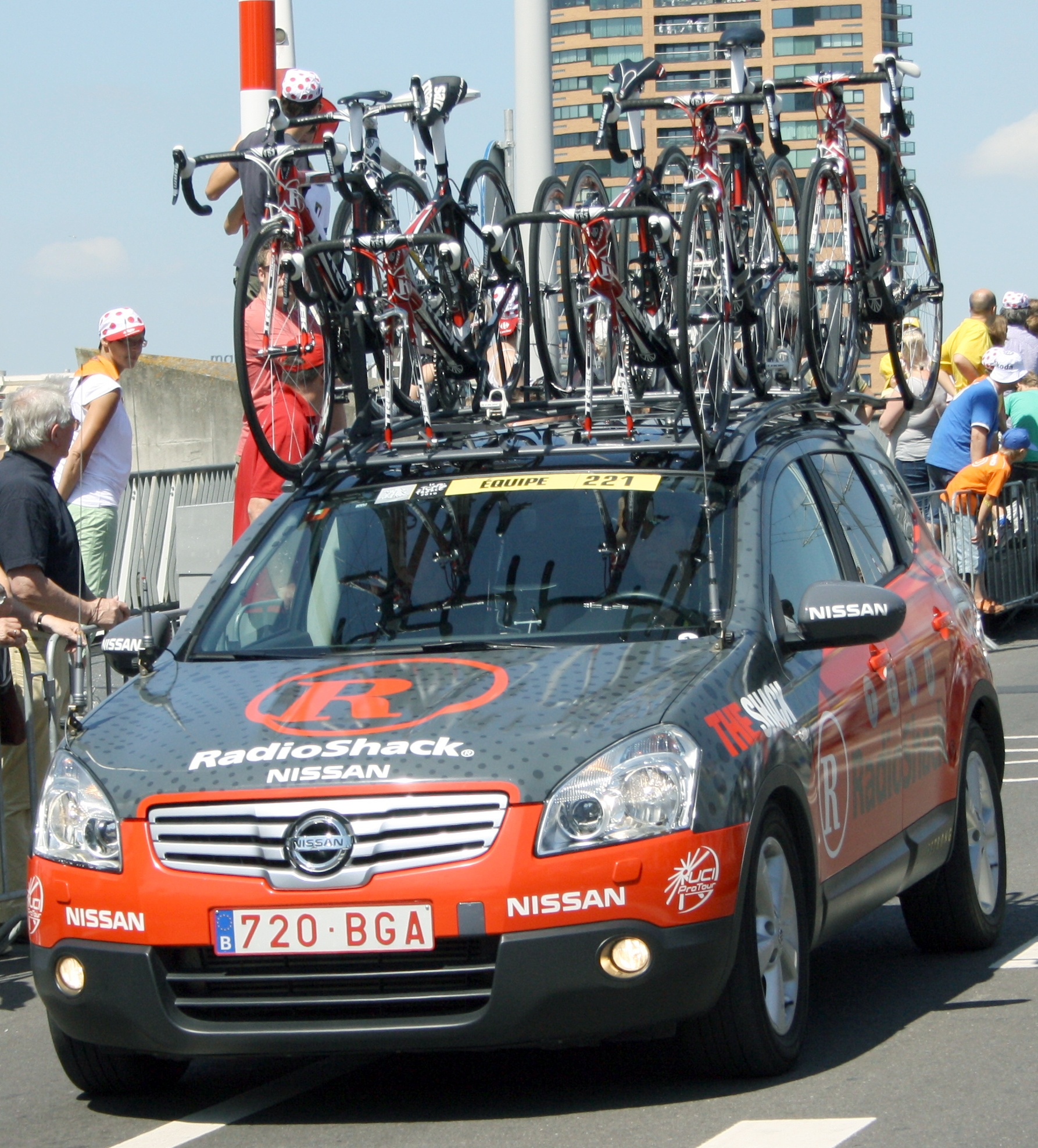 RadioShack team car at the start of the first stage of the 2010 Tour de France in Rotterdam